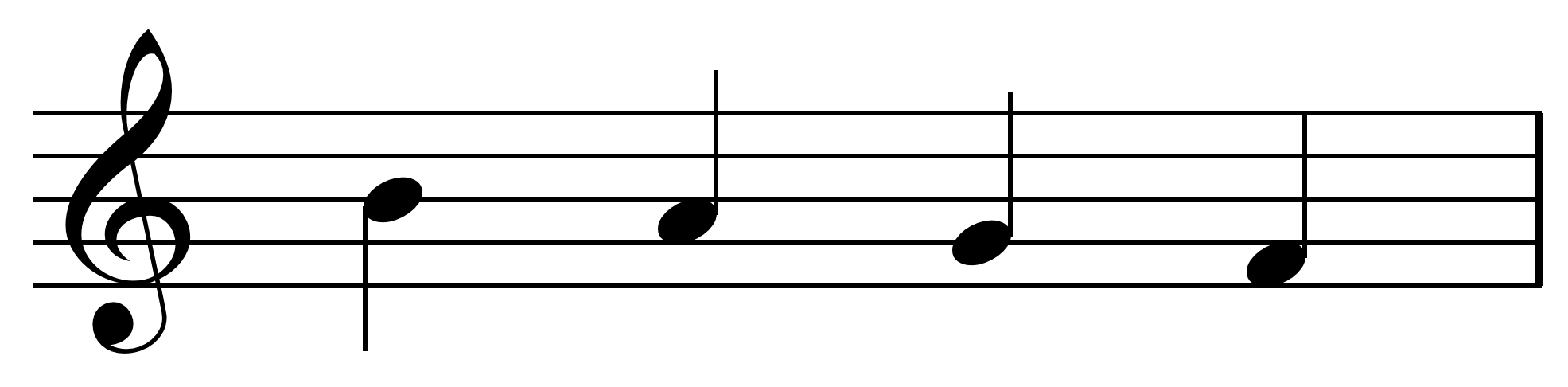 Created by Hyacinth (talk) using Sibelius 5. See: File:Locrian tetrachord.mid